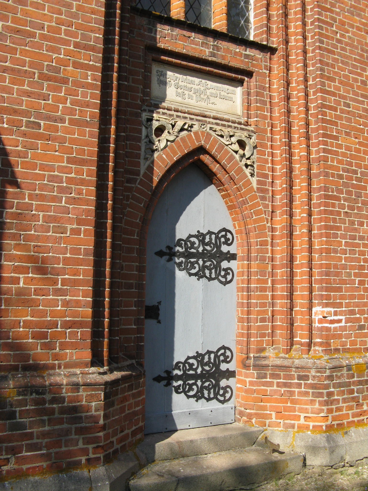 Church in Schlieffenberg, disctrict Güstrow, Mecklenburg-Vorpommern, Germany